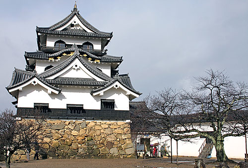 Hikone Castle in Shiga Prefecture, Japan. Photo by Philbert Ono.